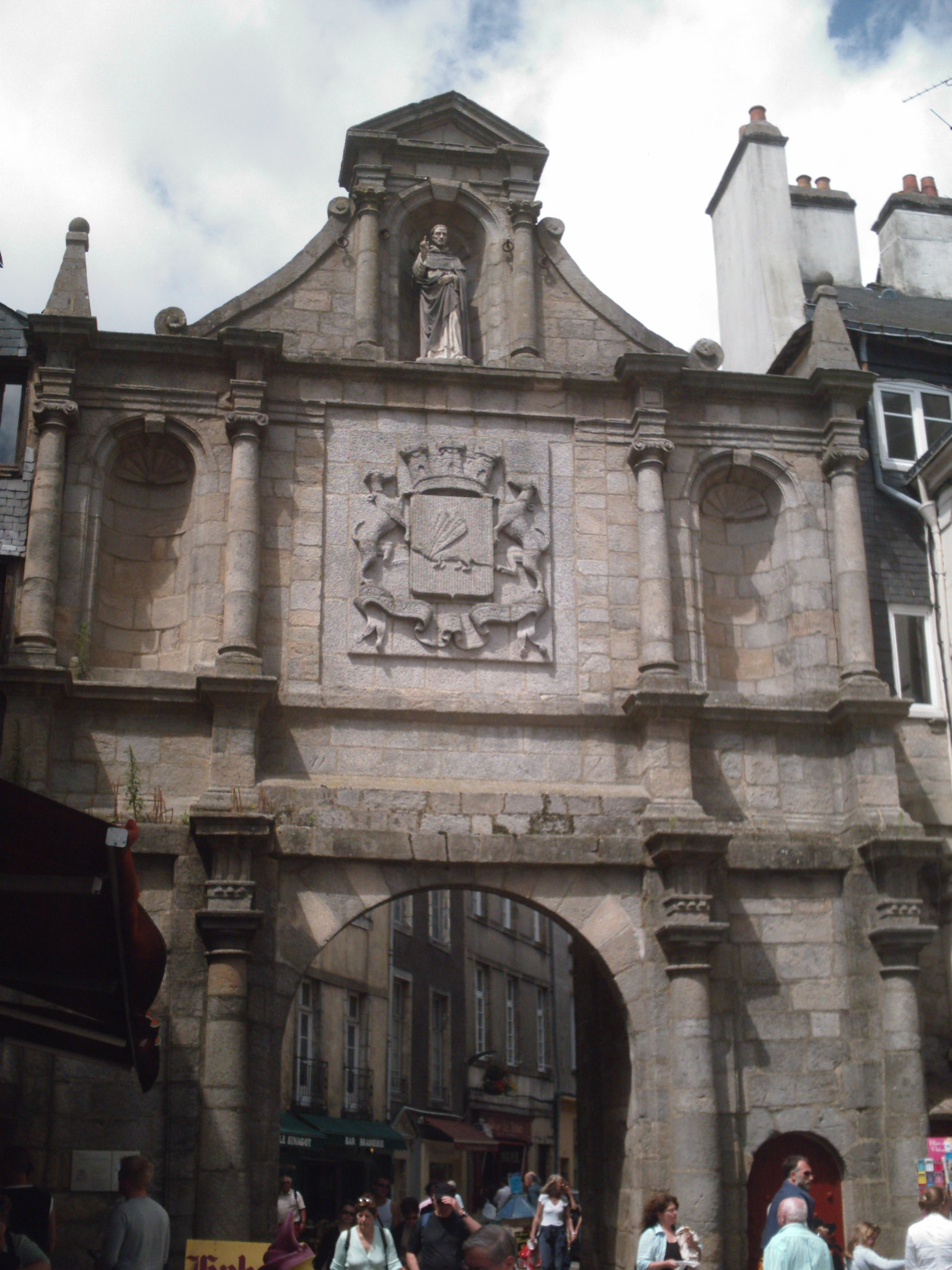 Saint Vincent Gate, Vannes (France)